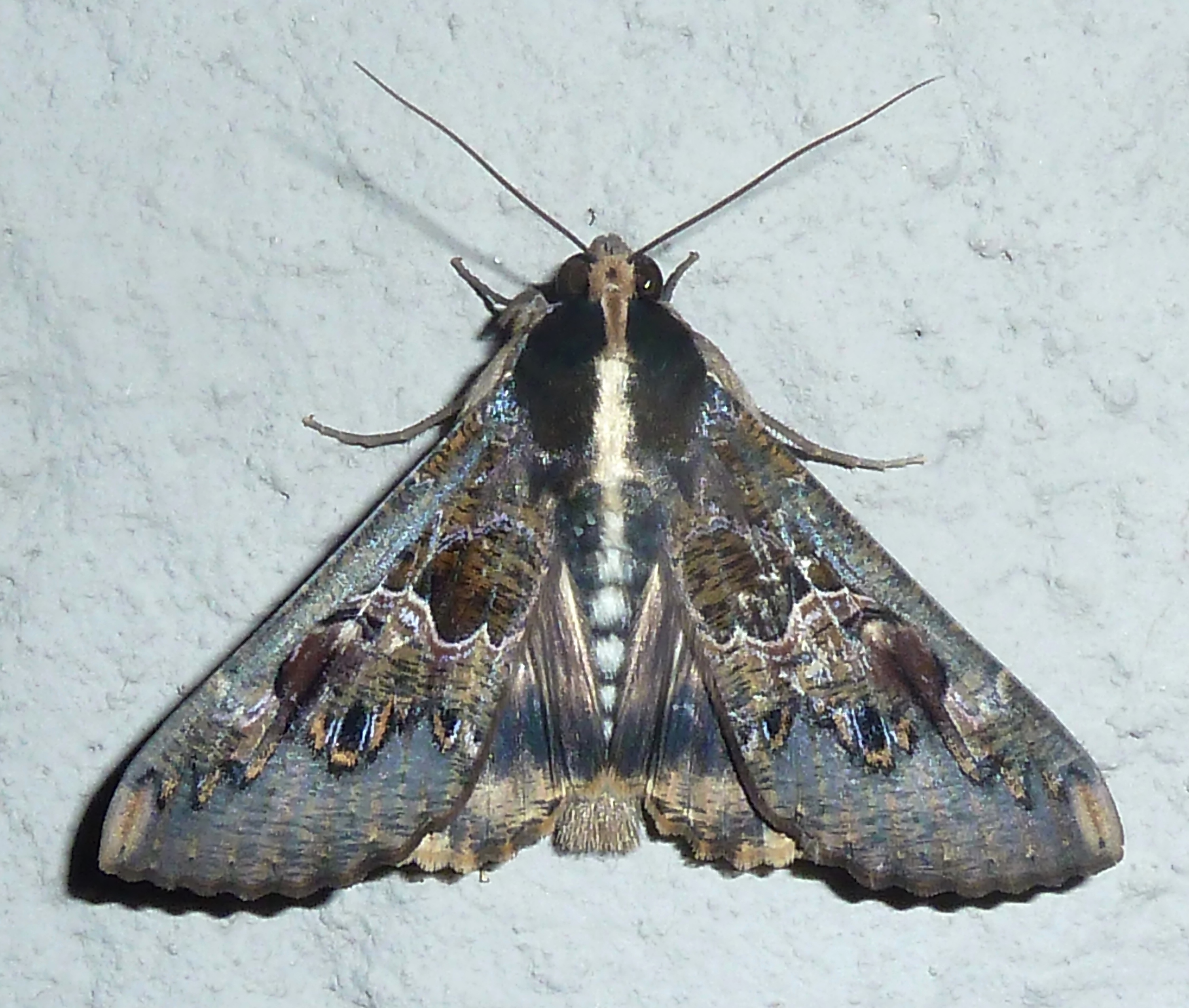 Sundowner moth at Kameeldrift near Pretoria, South Africa